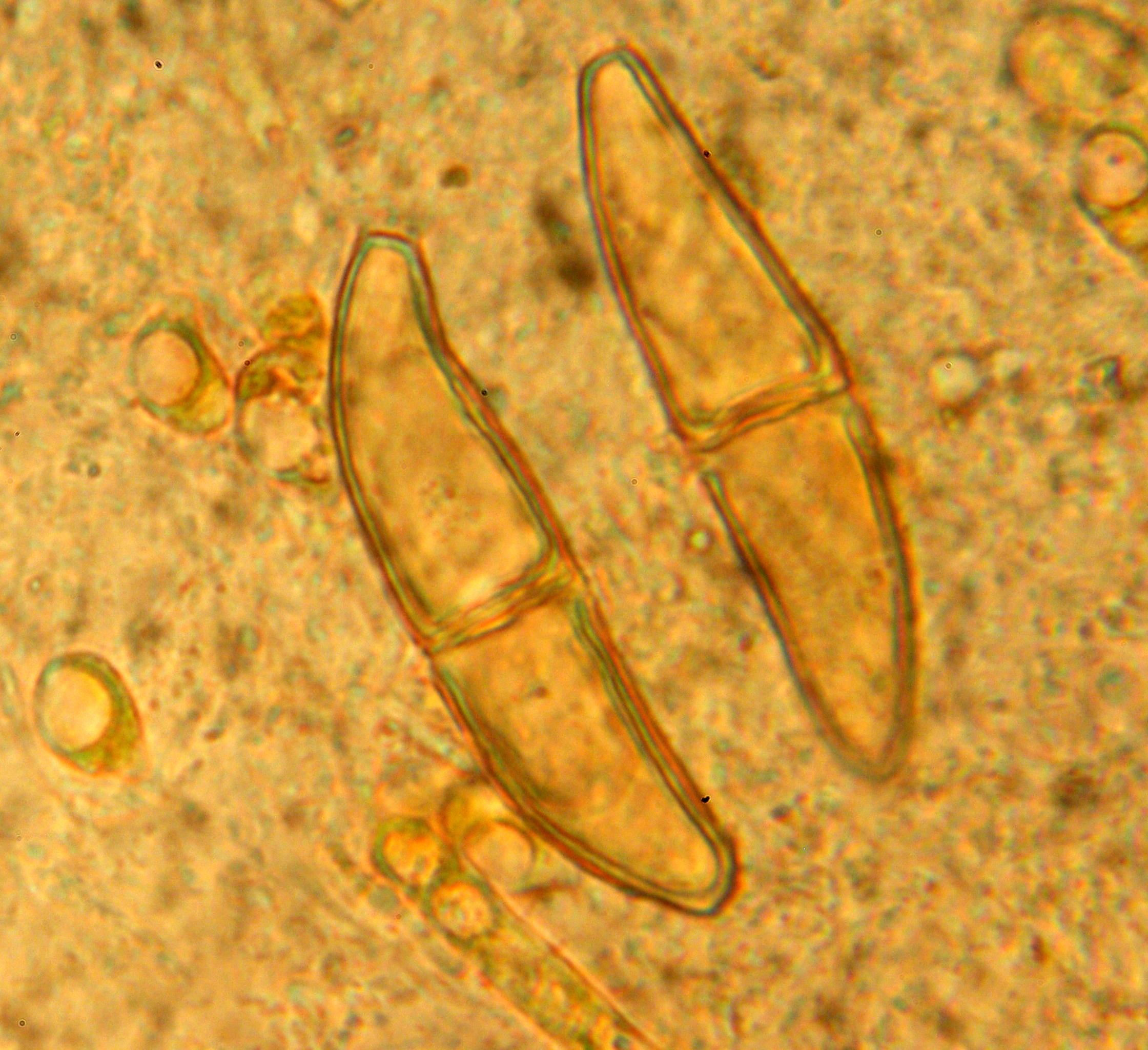 Two teliospores of Gymnosprangium clvariforme from Telia on Juniperus communis